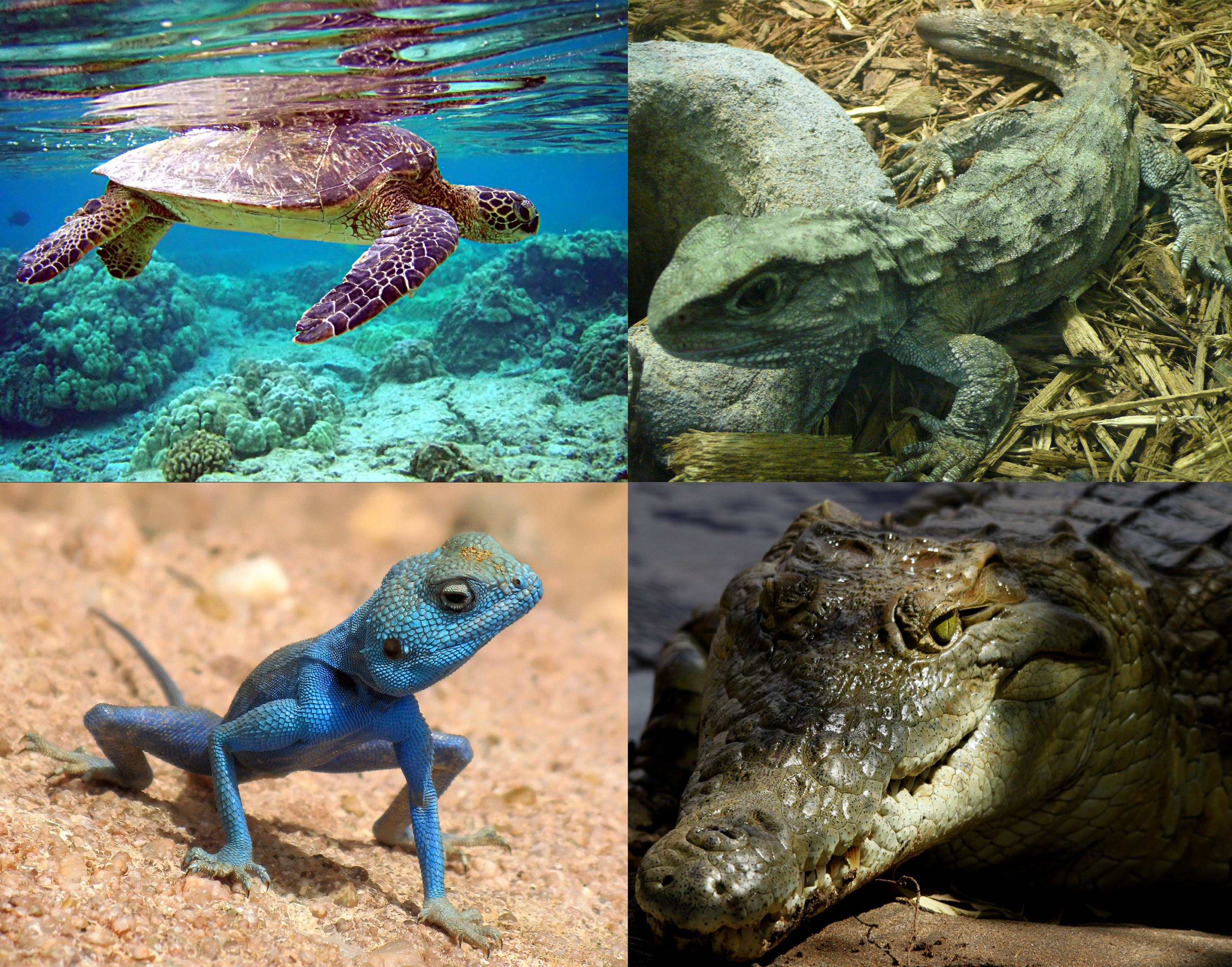 Reptilia (reptiles), based featured pictures (except the Sphenodon): File:Total internal reflection of Chelonia mydas .jpg File:Sphenodon punctatus (2).jpg File:AgamaSinaita01 ST 10.jpg File:Flickr - don macauley - Crocodile.jpg All of them are either under a free licence already in Wikicommons, or in the public domain